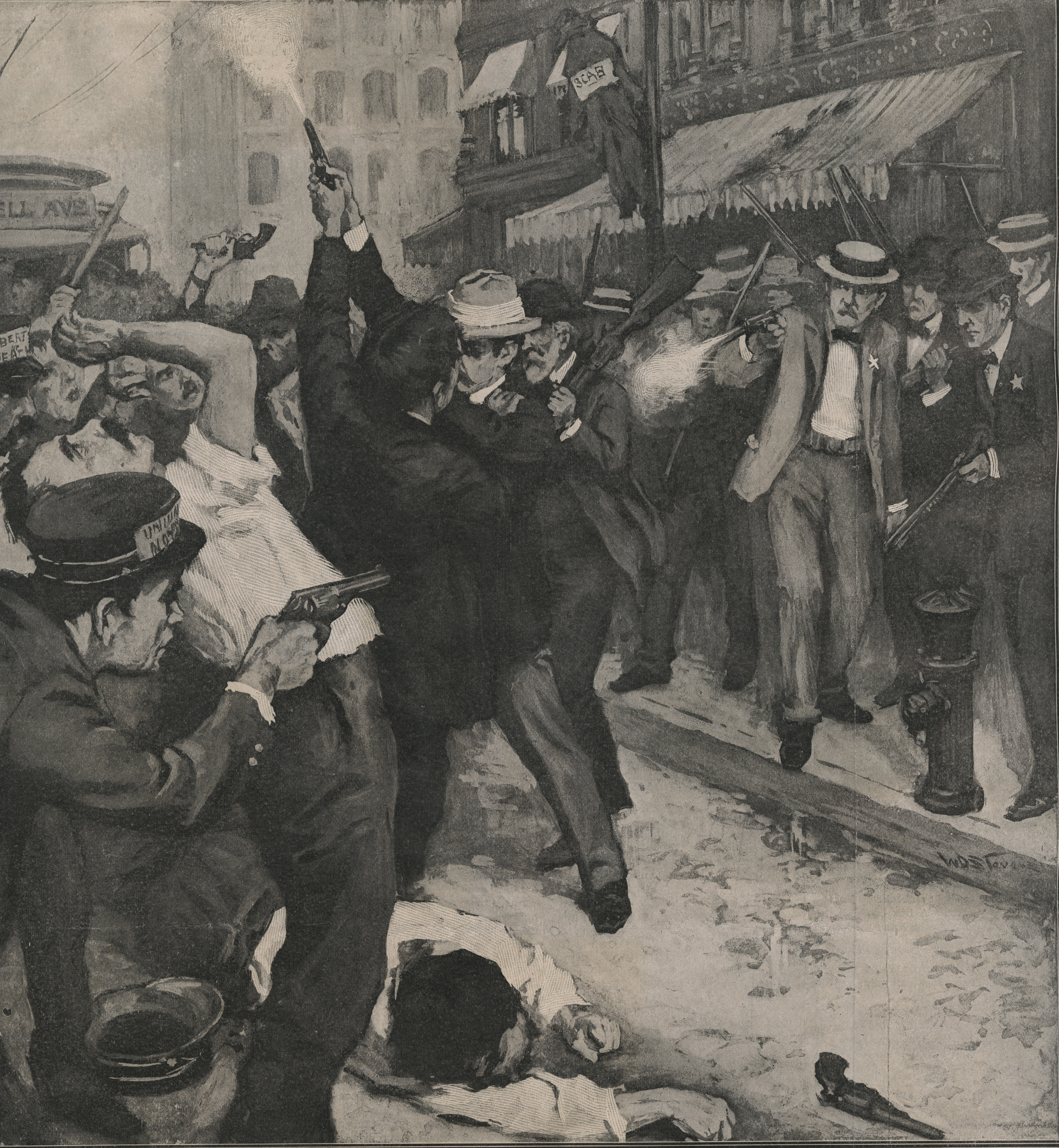 The St. Louis Strike--The fatal conflict between rioters and the citizens' posse, drawn by W.D. Stevens from photographs and sketches, June 30, 1900. Published by Collier's Weekly. John H. Cavender St. Louis Streetcar Strike Papers. Missouri History Museum Archives, St. Louis, Missouri. ID Number=A0251_1.